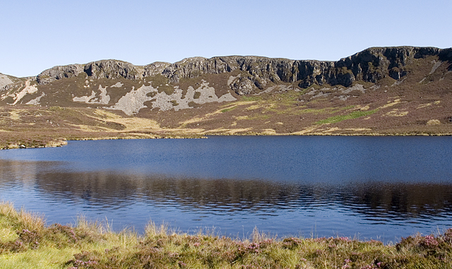 Llynnau Gamallt. Llynnau Gamallt are a pair of high lakes seen here beneath the rocky escarpment of Graig Goch.